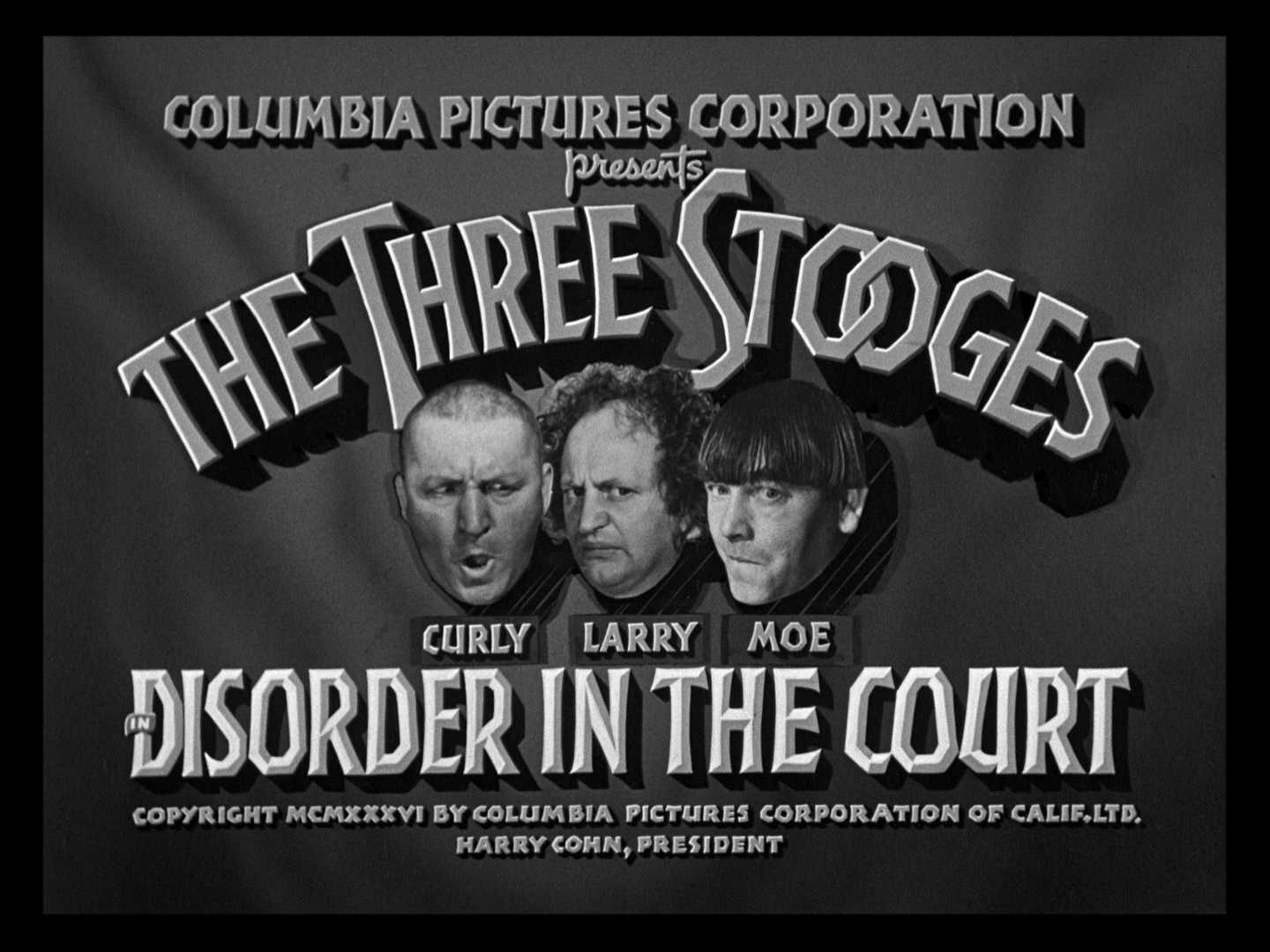 Title card for the original 1936 film Disorder in the Court.